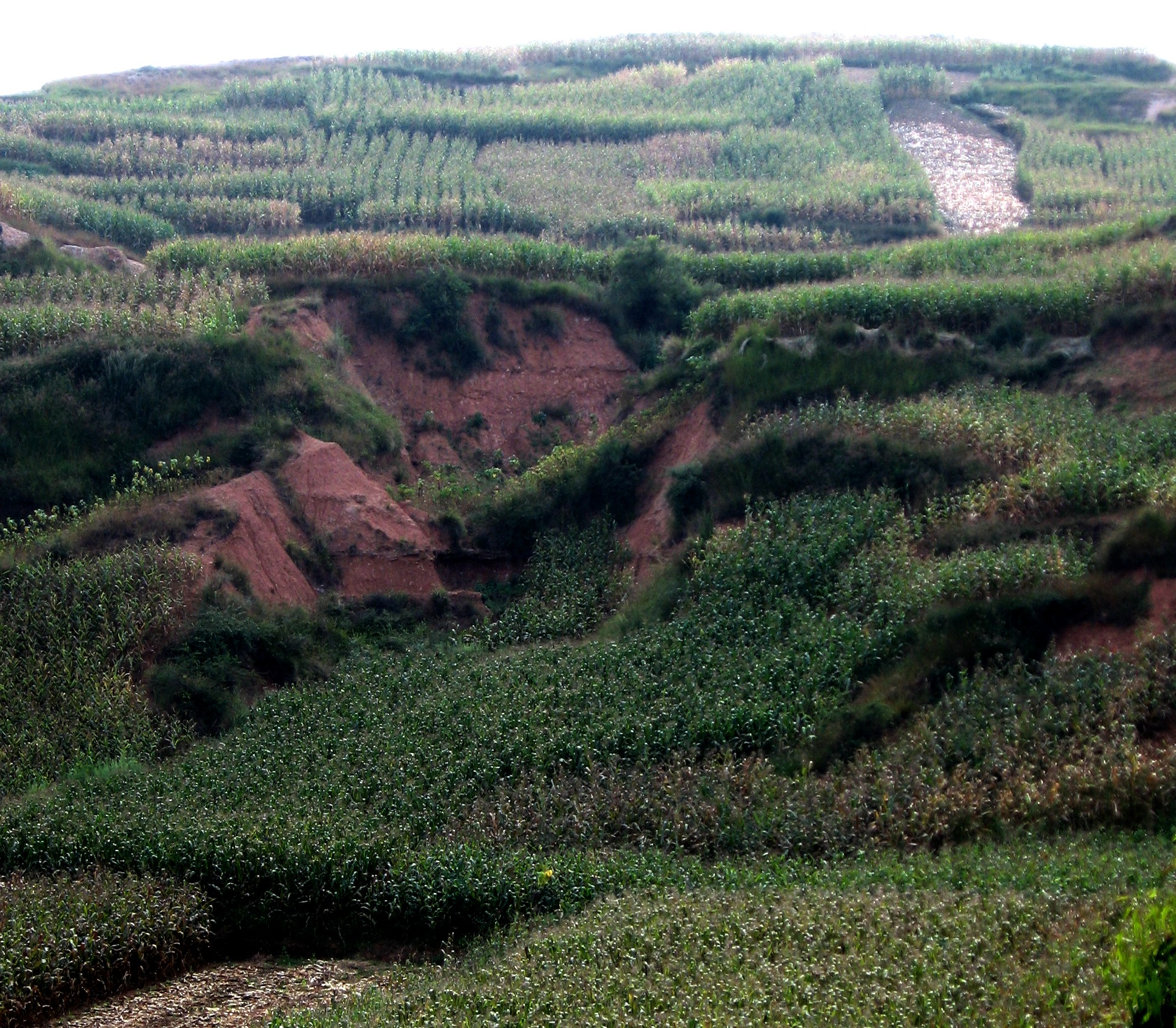 Rain runoff has recently carved deep gulleys on this unterraced upland farm. Soil erosion is a serious problem in the humid tropics. Location: near Kunming, Yunnan Province, PRC.